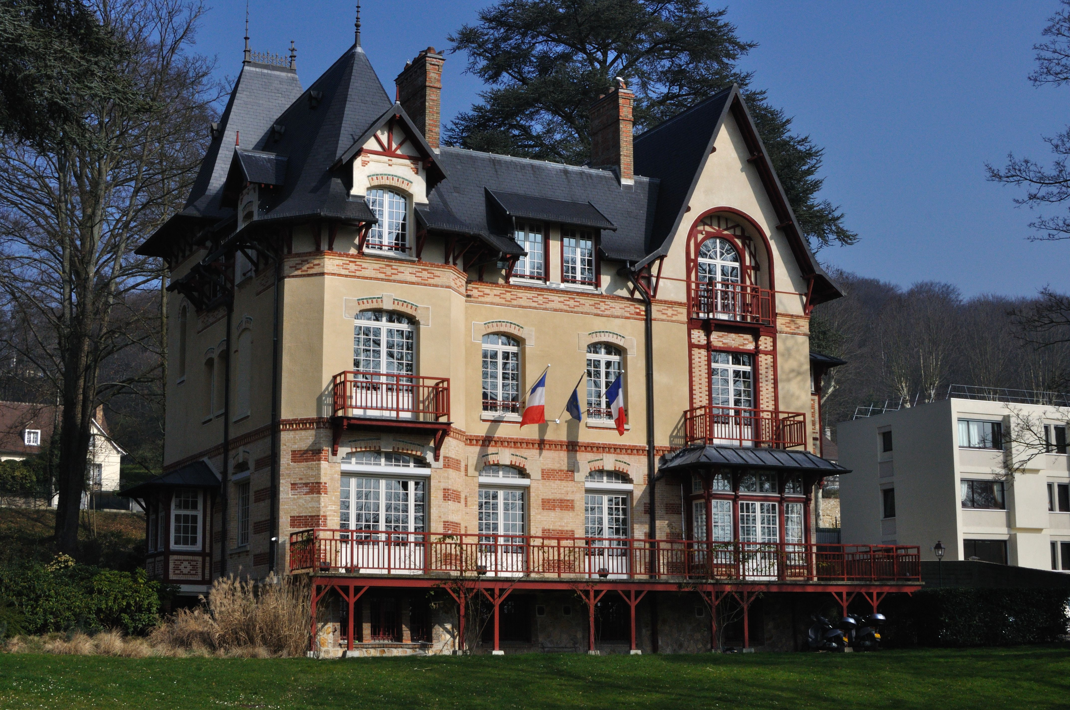 Town Hall of Andilly